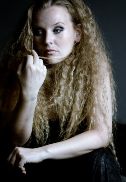 Actress Vaile